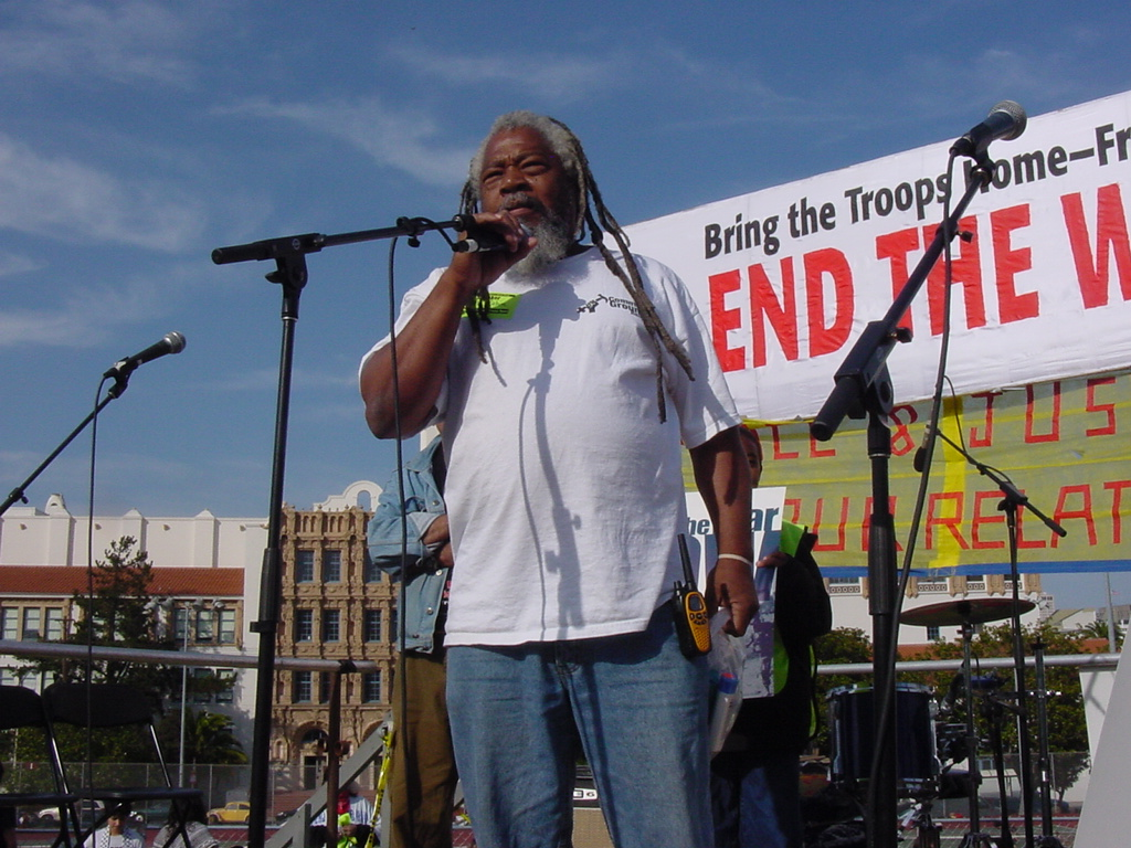 Photo of Mr. Rahim was taken at Dolores Park in San Francisco October 27, 2007. Rahim, representing Common Ground, gave a speech to an anti-war crowd who had marched from San Francisco's Civic Center.